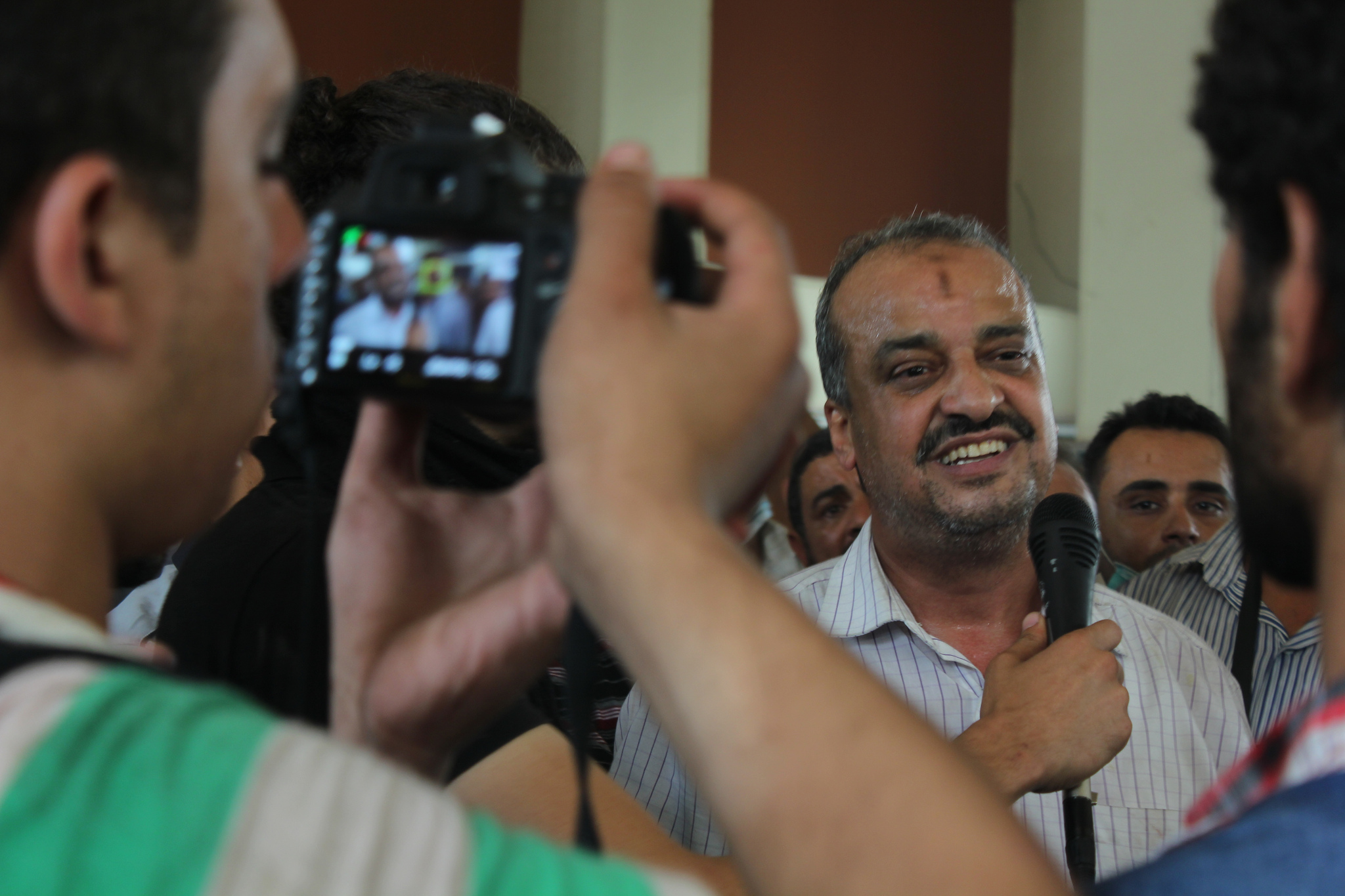 Mohamed Al Beltagy in RABIA Mosque